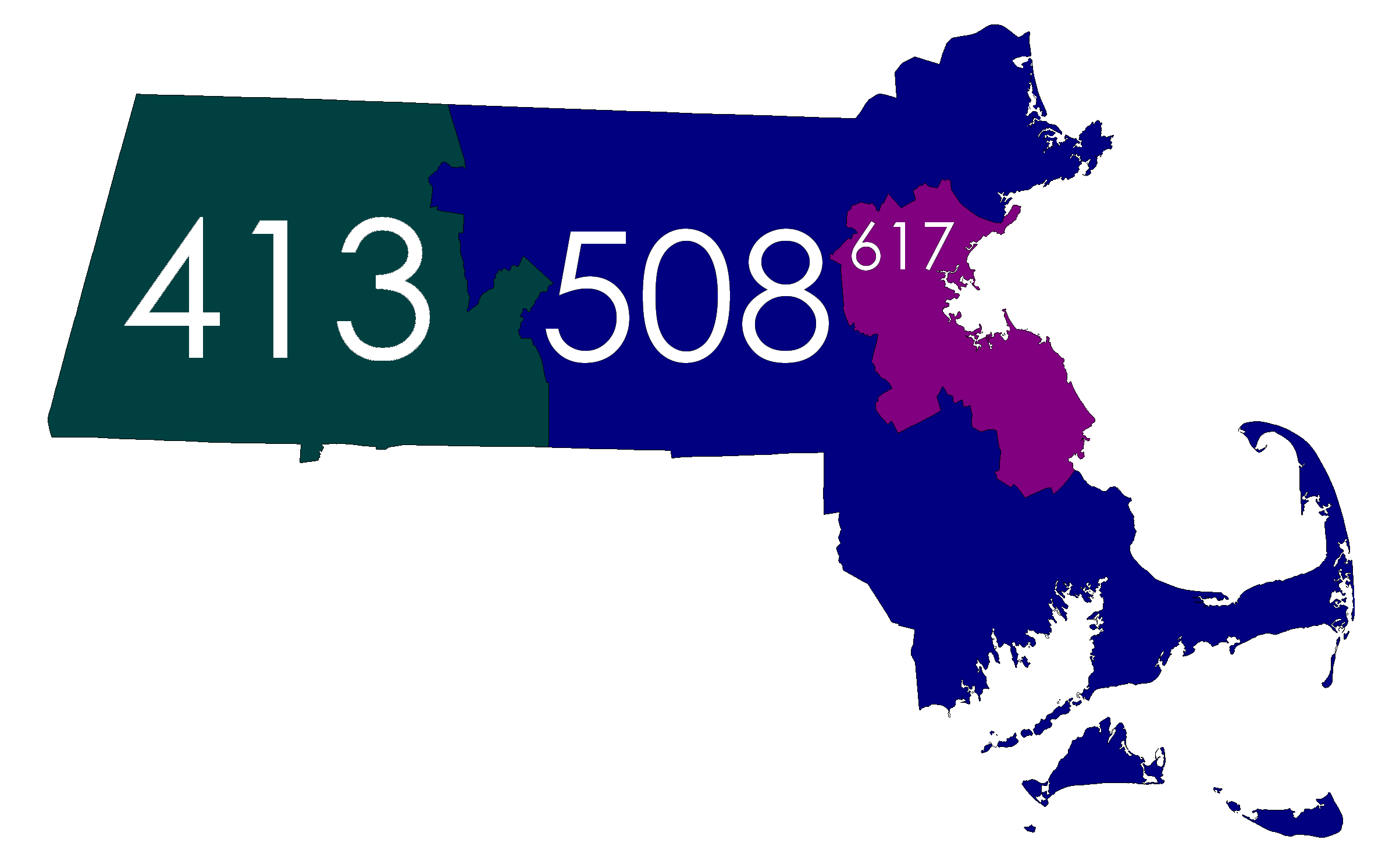 Made myself for Wikipedia